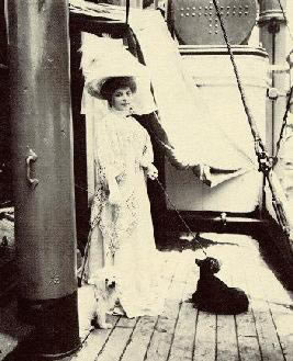 Photo of Princess Lwoff-Parlaghy. The picture was probably taken in 1896 - at her first trip to New York.